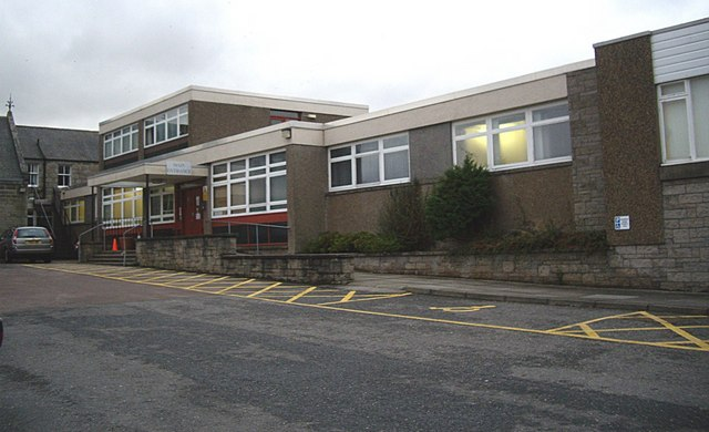 Huntly Hospital Main Entrance; off Bleachfield Street.